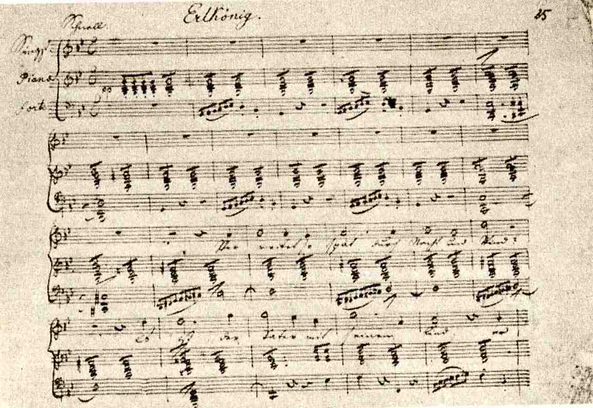 The title page of Schubert's Erlkönig.